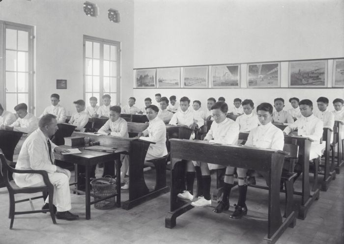 Class-room in the new building of the Dutch East-Indies Medical School in Surabaya